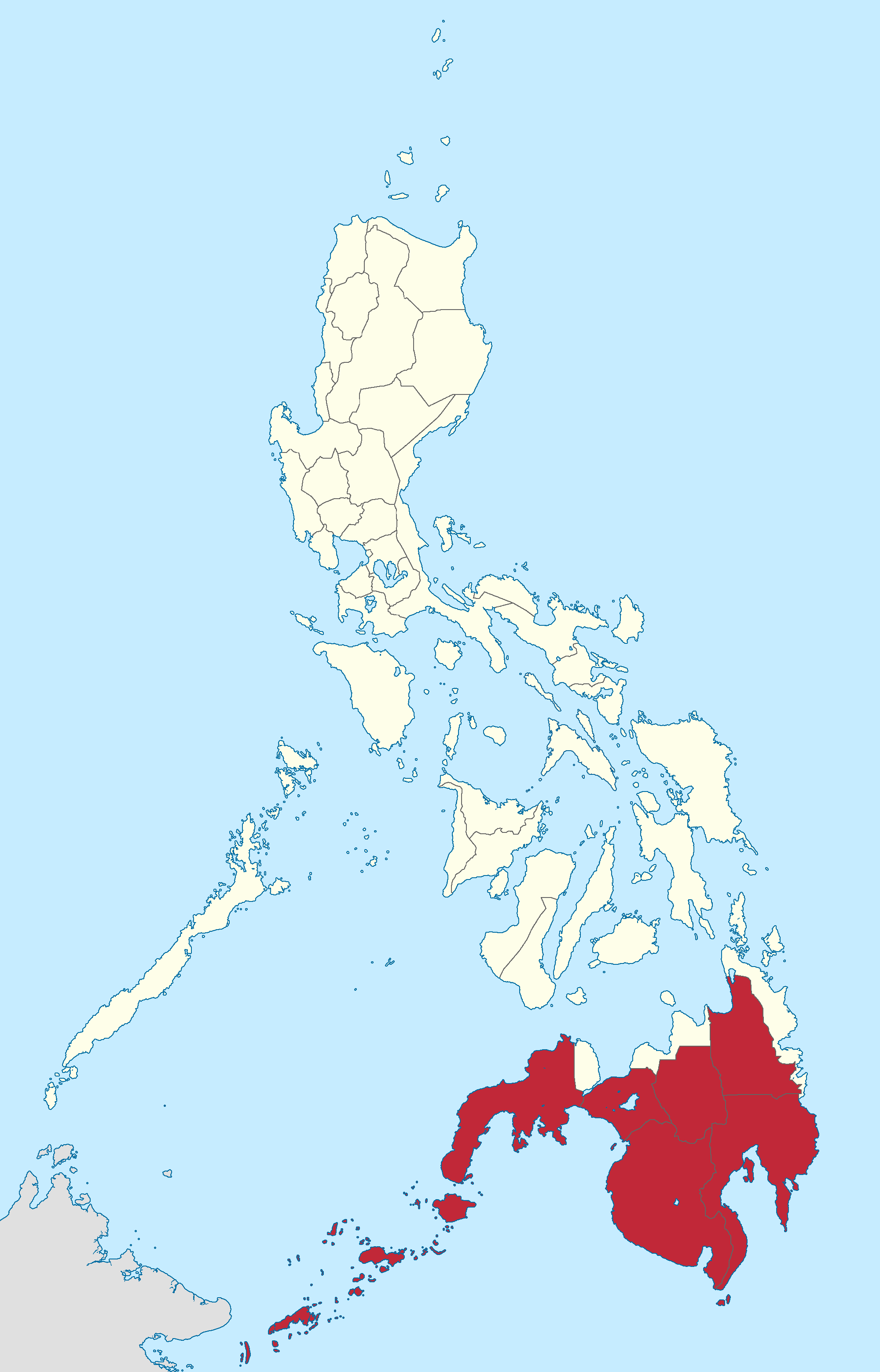 Location map of the Department of Mindanao and SuluTagalog: Kinaroroonang mapa ng Departamento ng Mindanao at Sulu